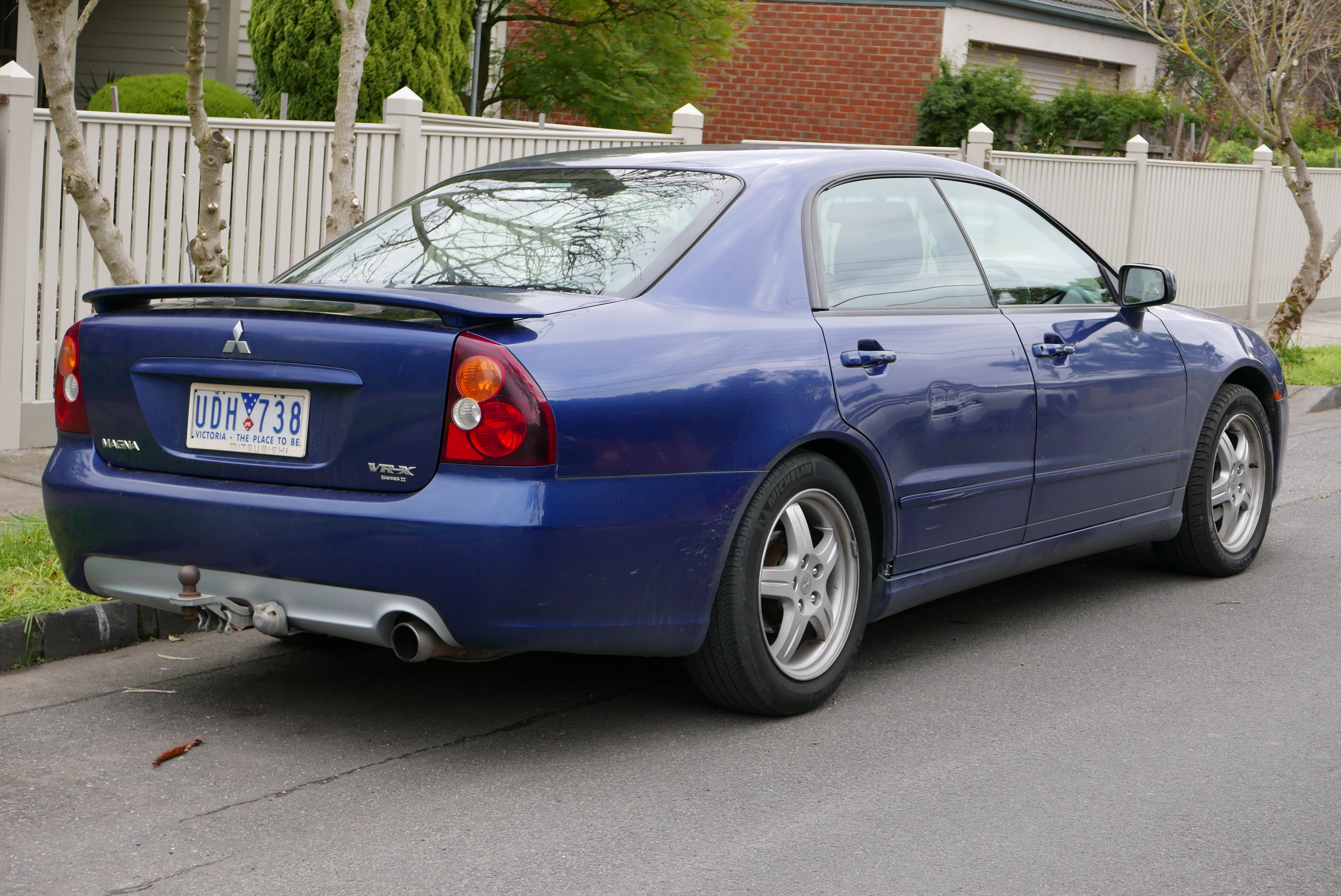 2005 Mitsubishi Magna (TW) VR-X sedan. Photographed in Alphington, Victoria, Australia. Vehicle registration enquiry resultsJurisdictionVictoriaRegistrationUDH738Chassis code6MMTW9V425T004420Engine code6G74M350477Compliance date2005-04Year of manufacture2005